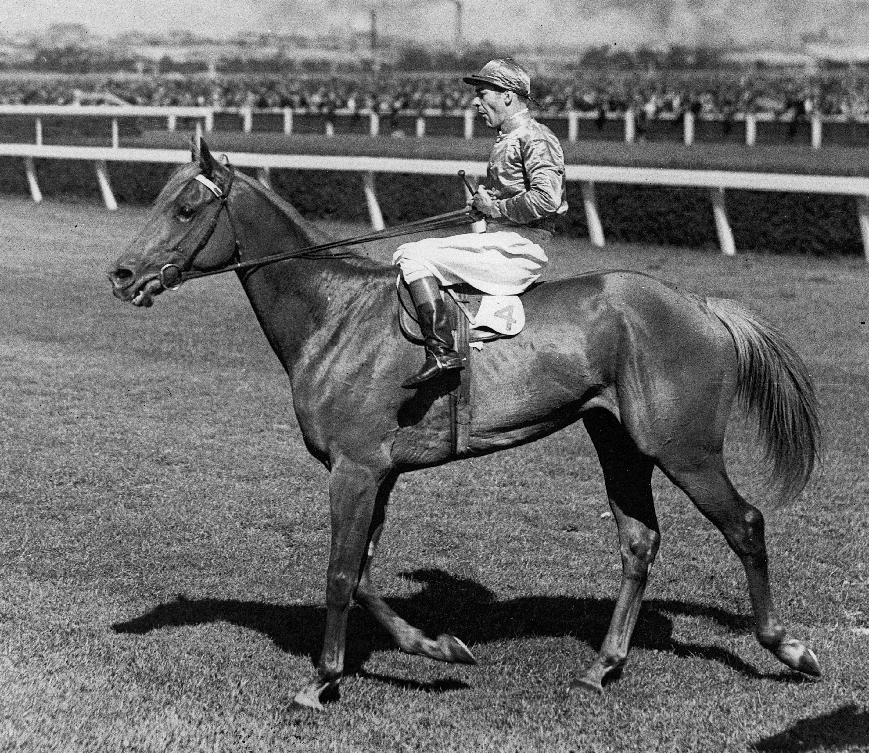 HIGH RESOLUTION SHADOW FREE SCAN FROM ORIGINAL PHOTO DUAL MELBOURNE CUP WINNER PETER PAN JOCKEY DARBY MUNRO 1932 & 1934